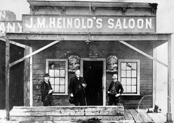 The First and Last Chance Bar in 1885, five years after opening, Pictured L to R: George Gibson, Sea Capt.,Alfred Burrell, and Johnny Heinold.